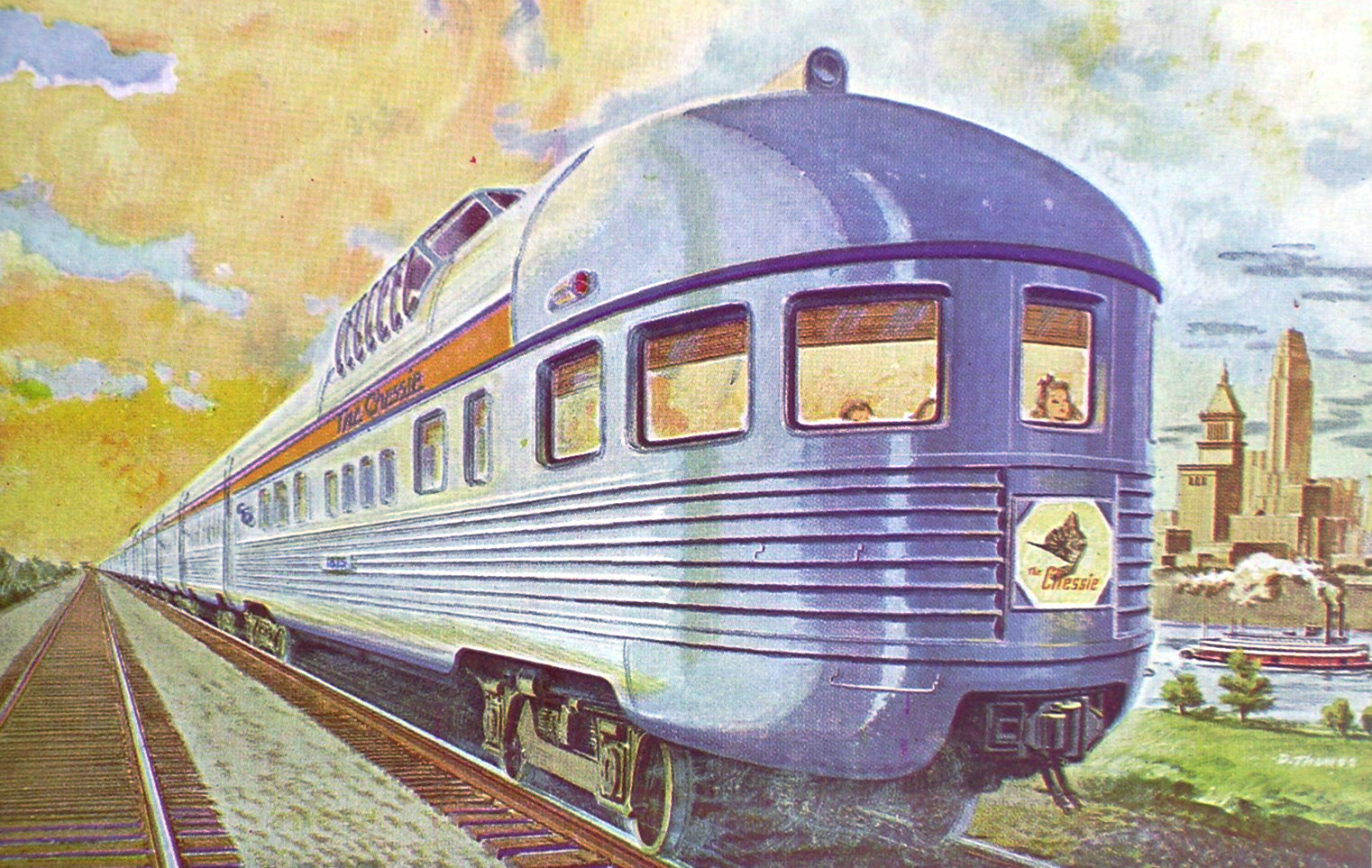 Postcard depiction of the observation car of the Chesapeake and Ohio train The Chessie.